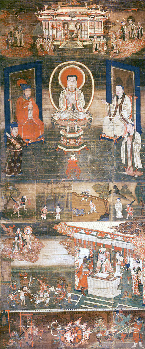 Sermon on Mani’s Teaching of Salvation, Cathayan/Chinese Manichaean silk painting, complete hanging scroll, 142 cm x 59,2 cm, colours on silk, ca. 13th century, Yamato Bunkakan Museum, Nara, Japan.